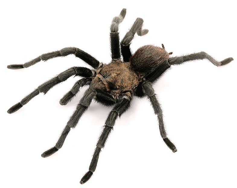 Aphonopelma anax male